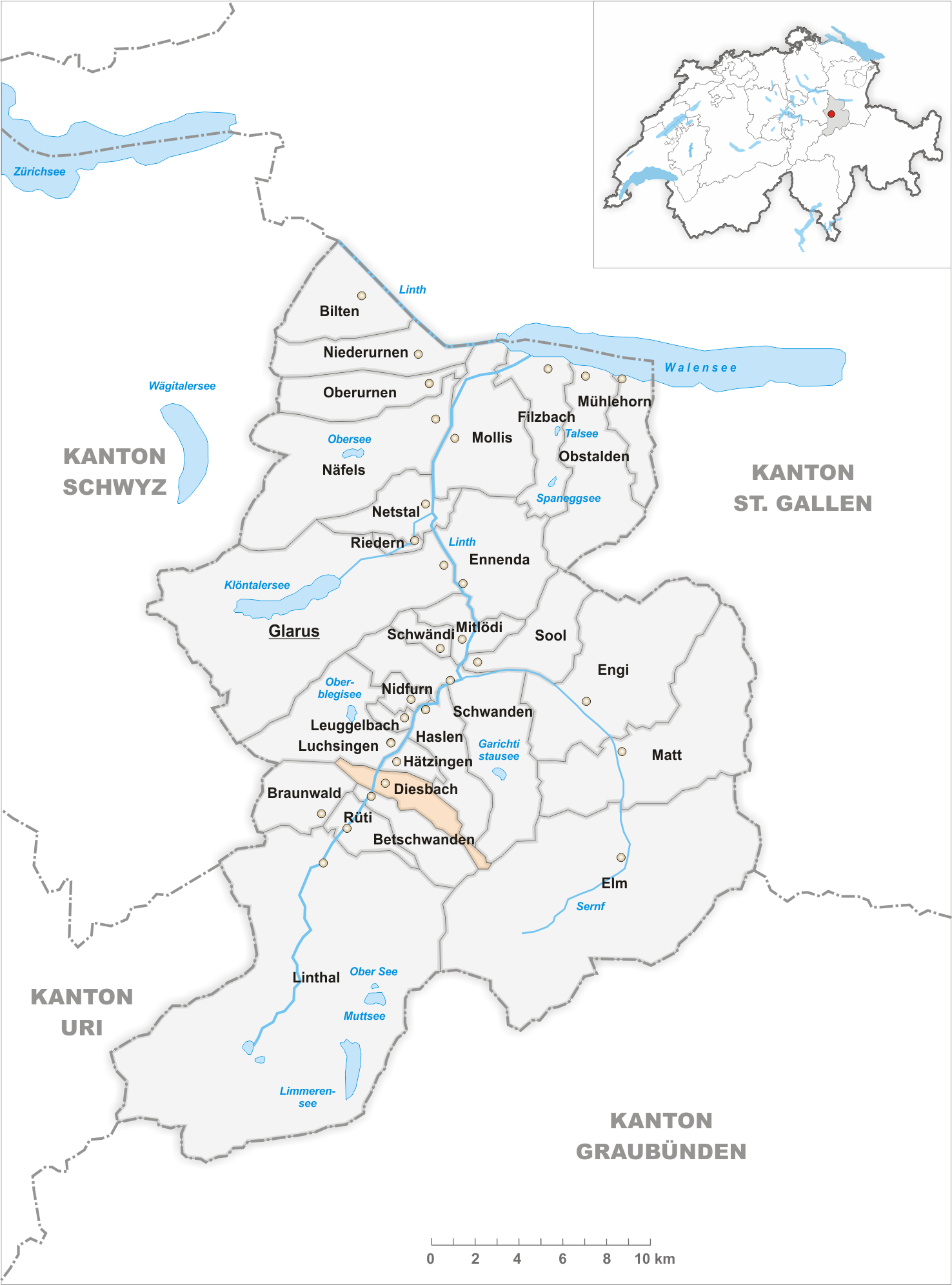 Municipality Diesbach Artist: Tschubby